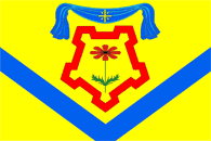 Flag of Otradnenskoe rural settlement, Krasnodar Territory, Russia